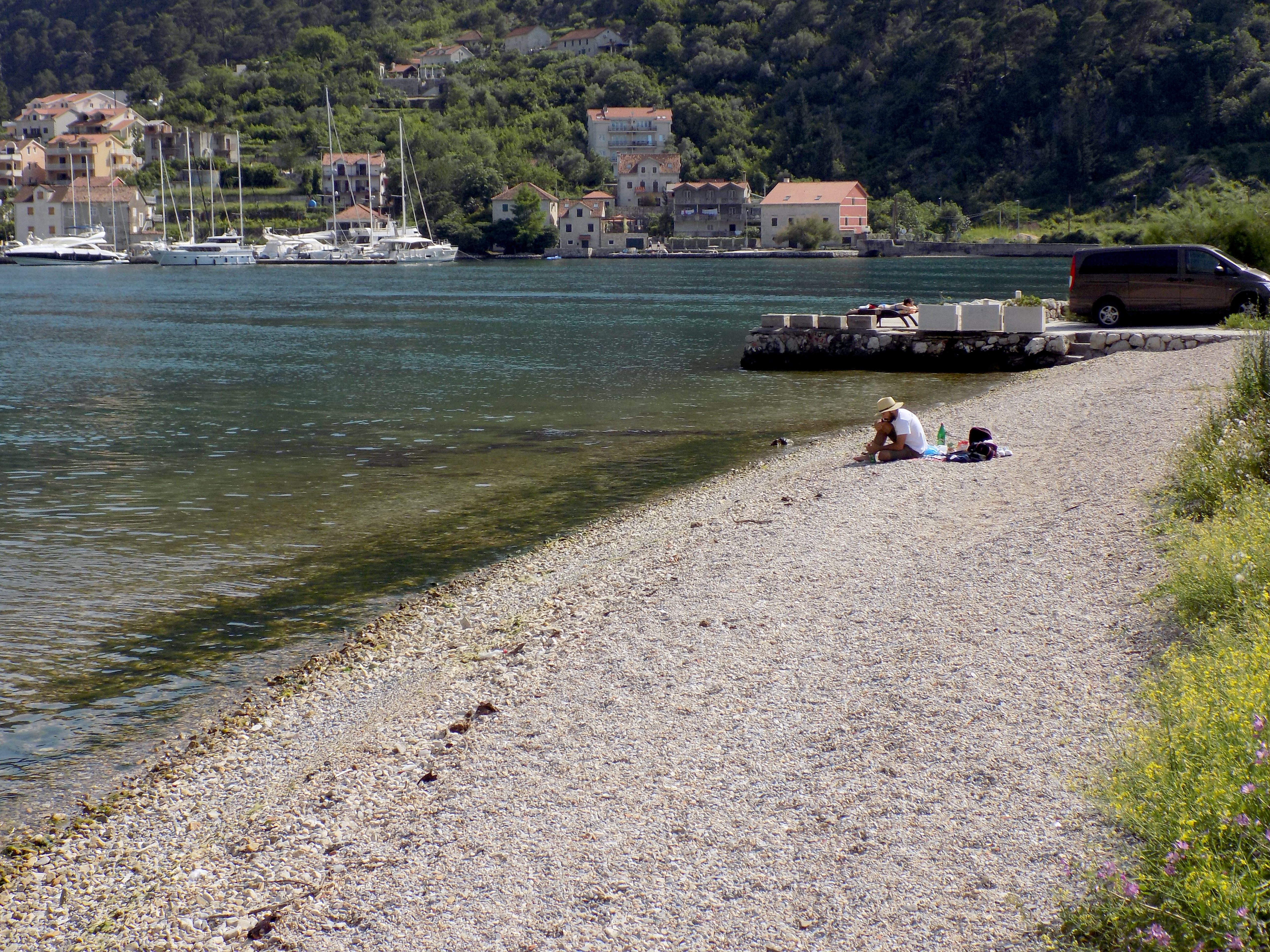 Fishing post in Bay of Kotor, near Prčanj, Montenegro